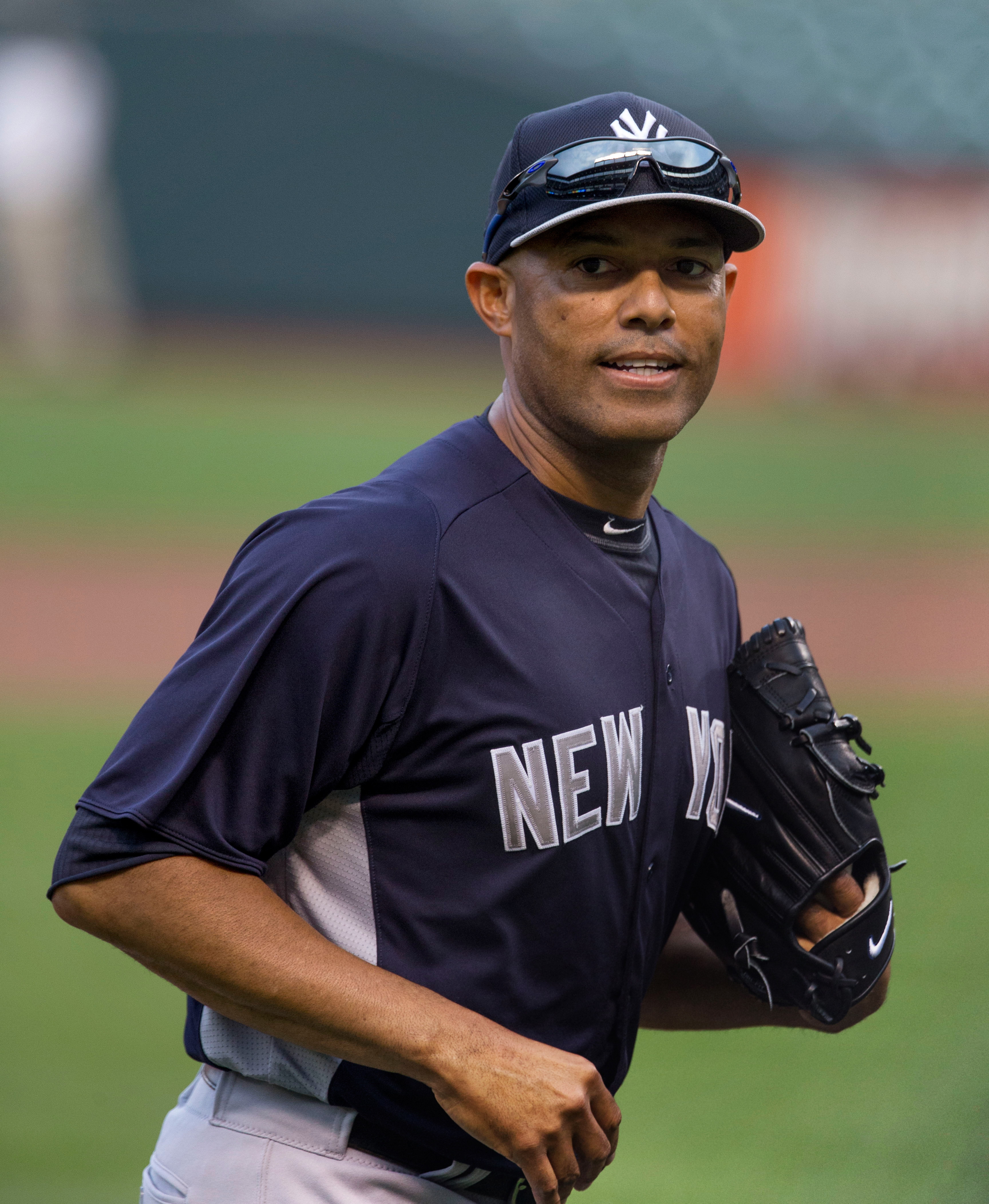 Former Yankees closing pitcher Mariano Rivera before a game at Orioles Park at Camden Yards.